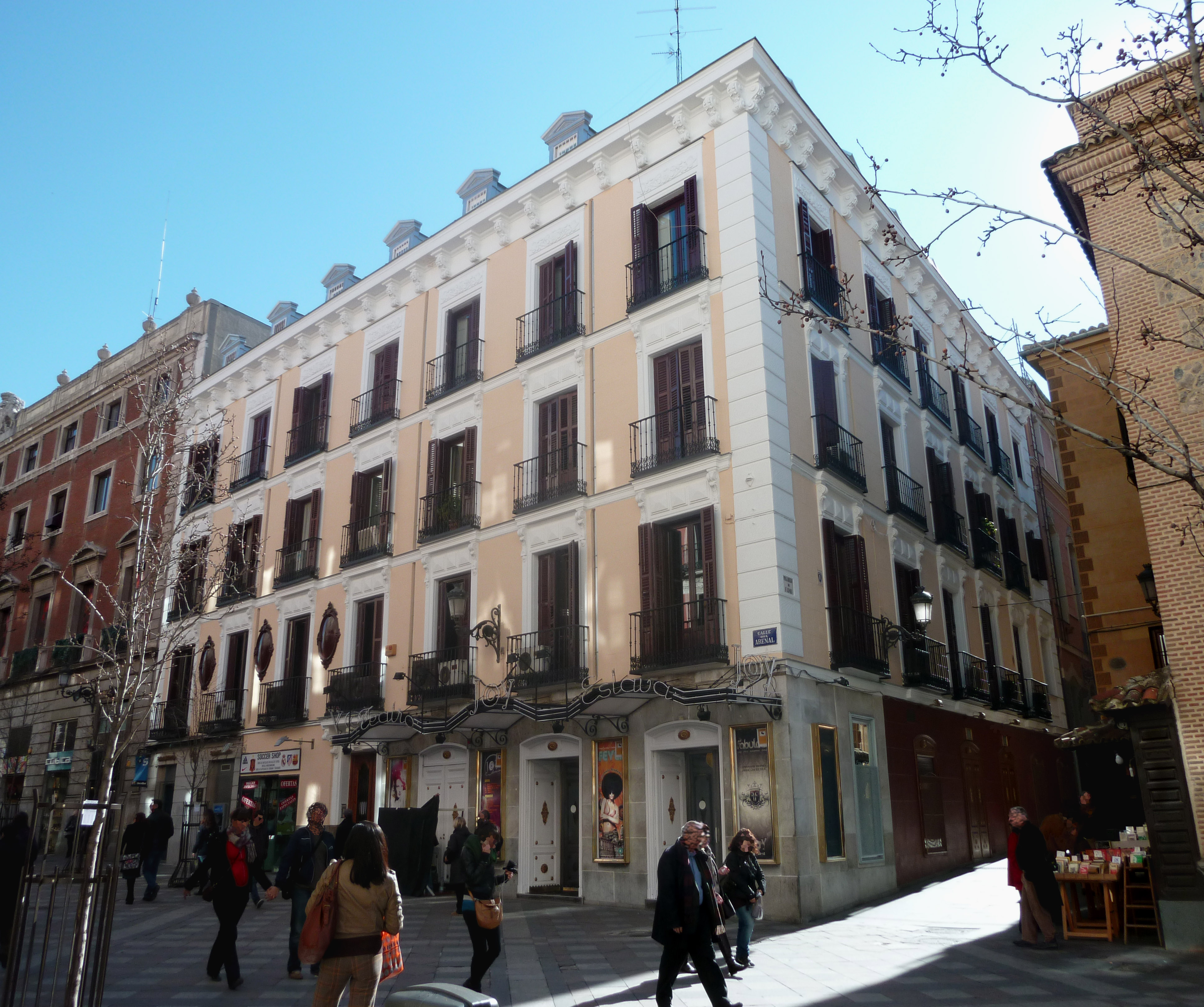 Façade of Teatro Joy Eslava in Madrid (Spain).